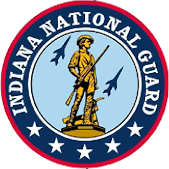 Indiana National Guard emblem.